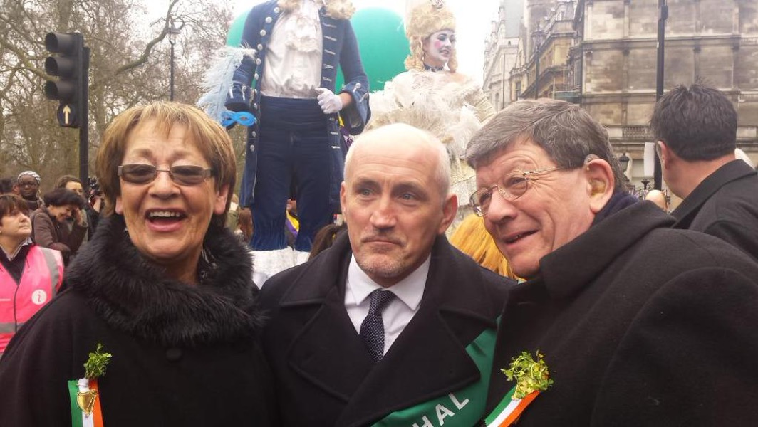 Boxer Barry McGuigan (center)